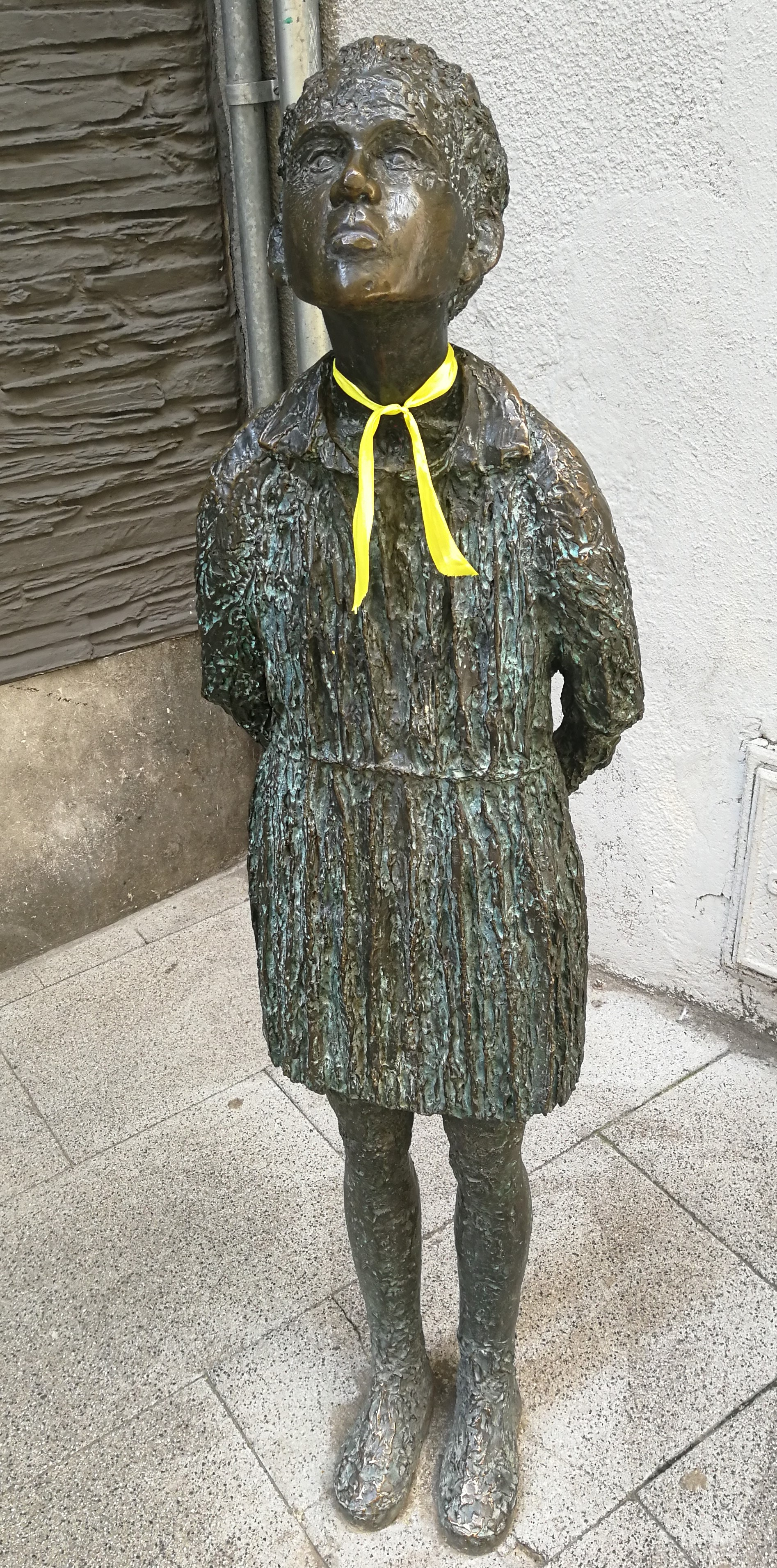 Anna Manella: Sculpture "Sense Luna" with yellow ribbon